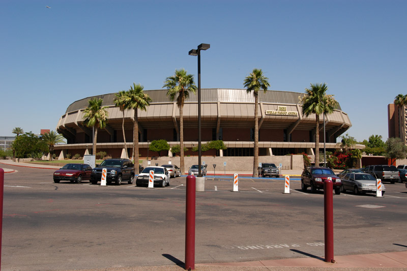 Wells Fargo Arena in Tempe, Arizona. Taken by Paul R. Kucher on 13 June 2005.